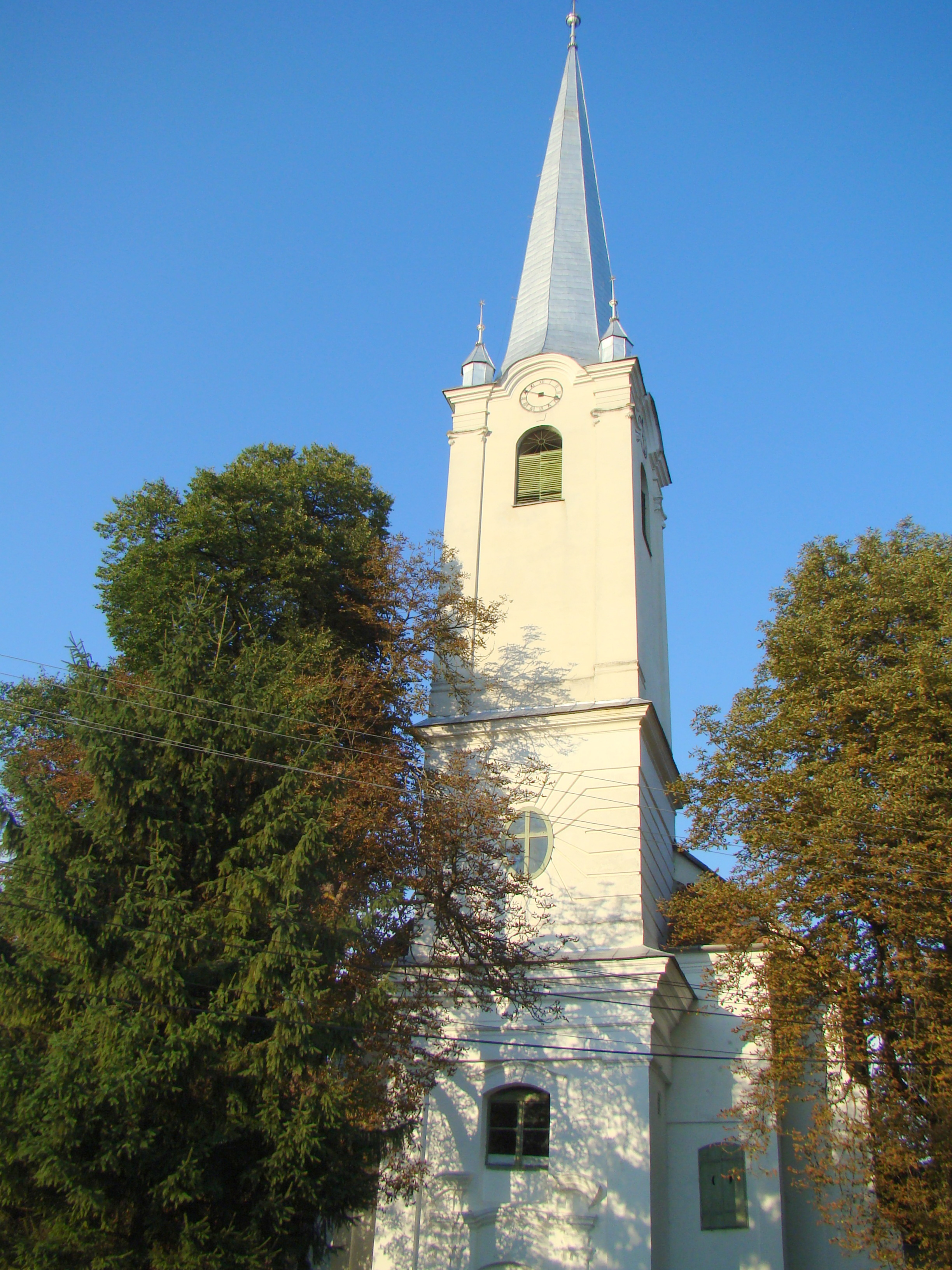 Reformed church in Ghindari, Mureş county, Romania